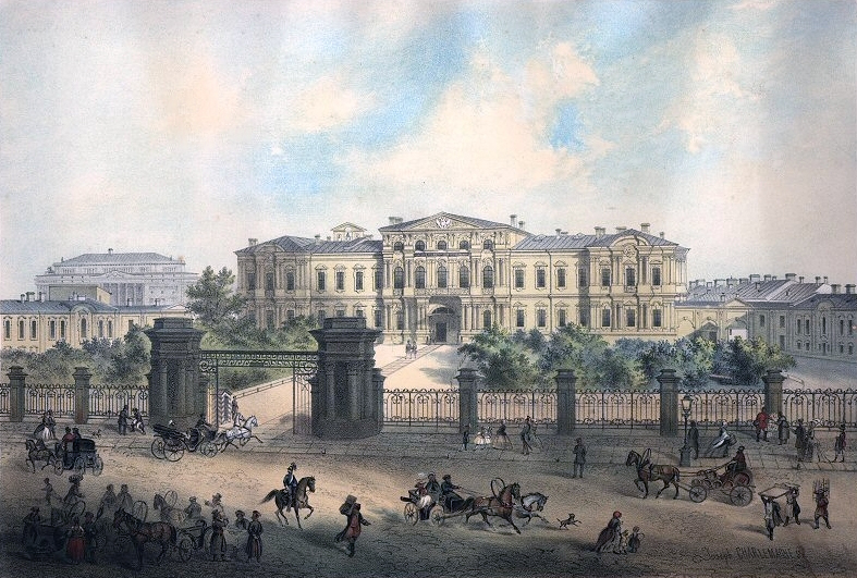 Imperial Corps of Pages Building (former Vorontsov Palace), St. Petersburg, ca. 1858. Lithograph after a drawing by J. Charlemagne.